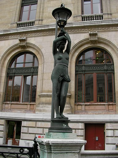 Cariatide - Palais Garnier - Paris